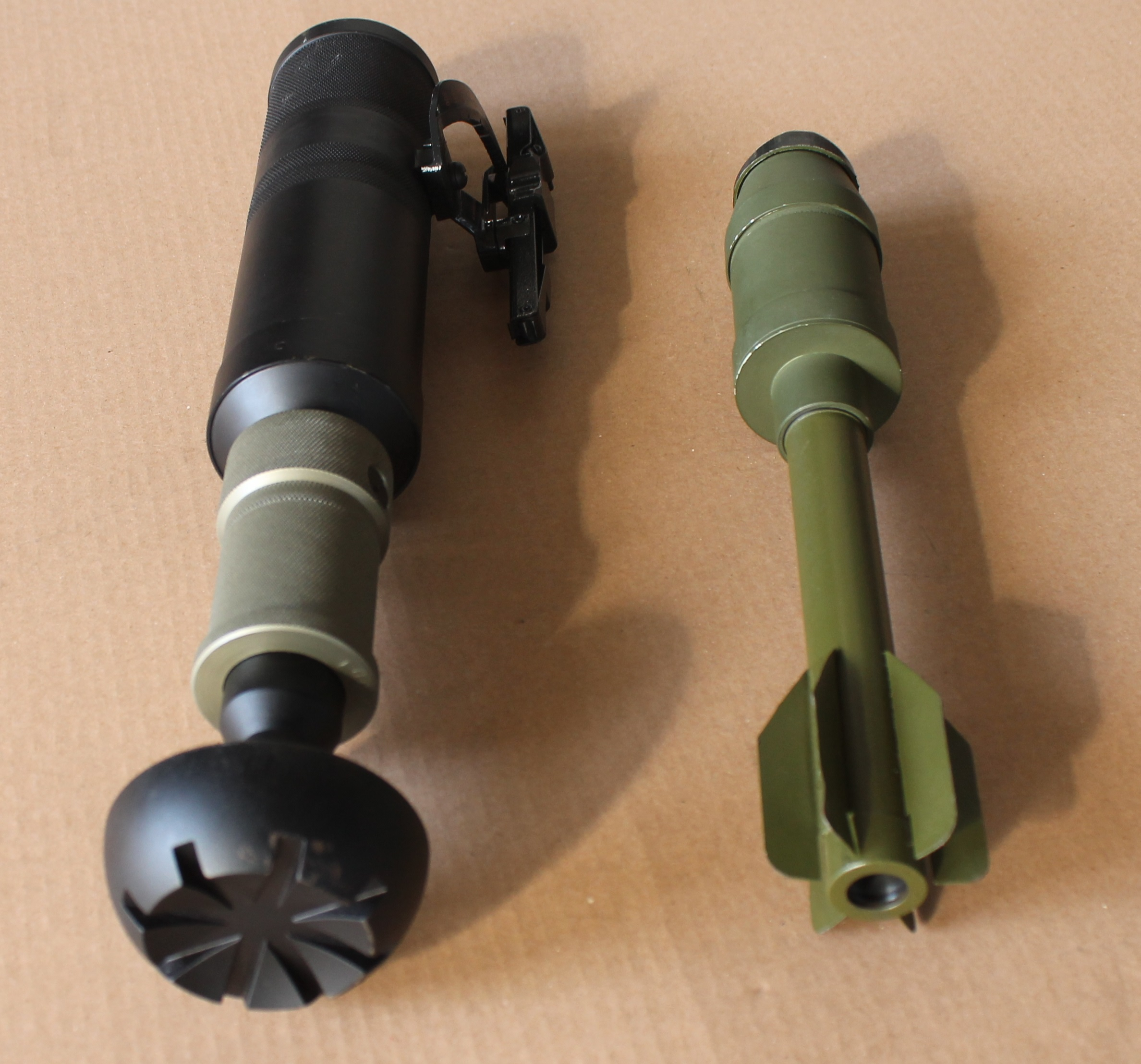 georgian made Noiseless Mortar GNM-60